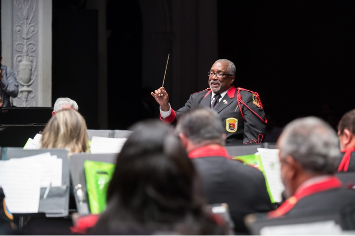 Maestro Rubén Colón Tarrats